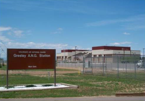 137th Space Warning Squadron, Greeley CO of the 140th Wing, Buckley AFB